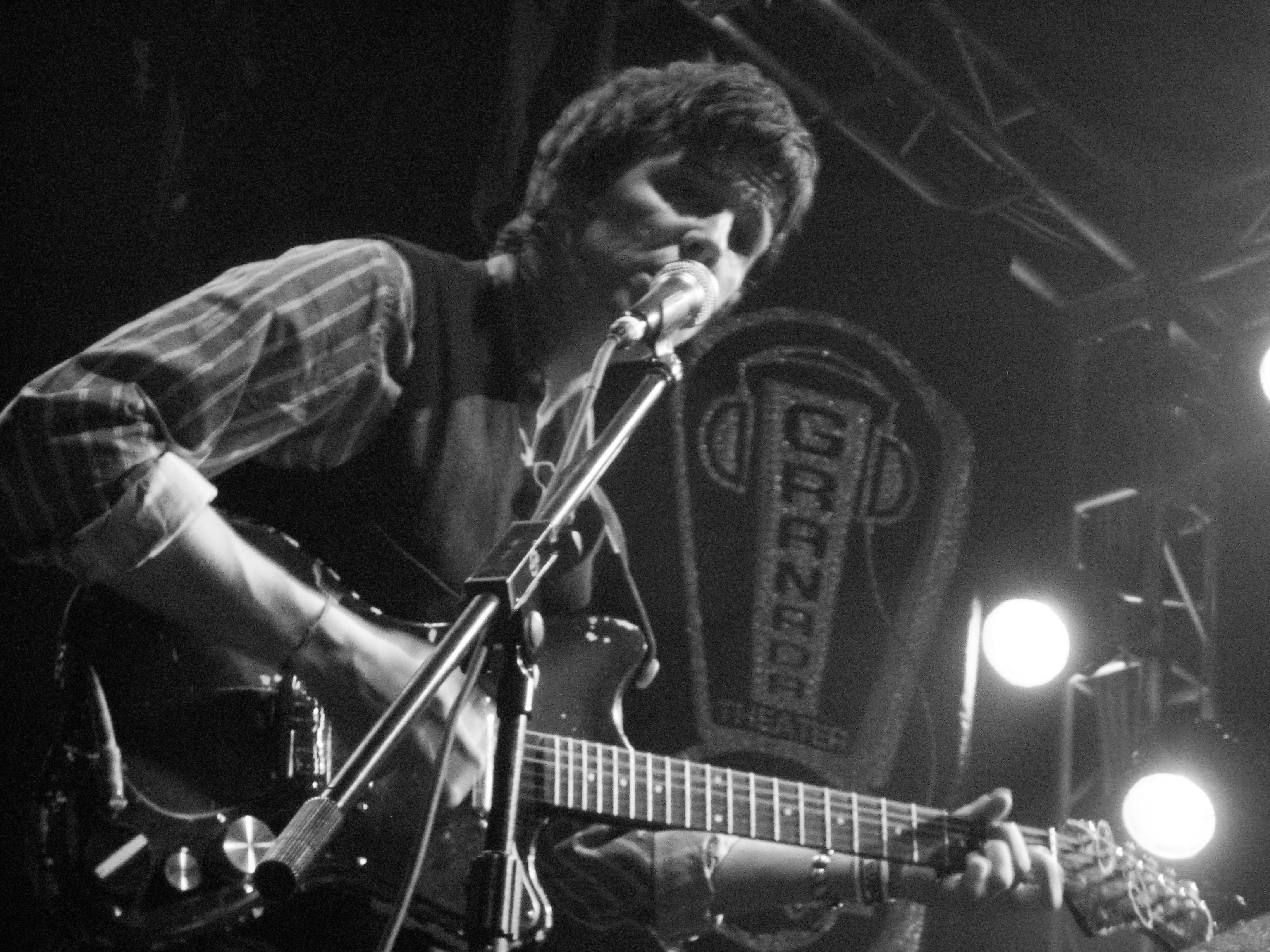 Emmett Kelly performing with Bonnie "Prince" Billy at The Granada Theater, June 6, 2009, Dallas, TX